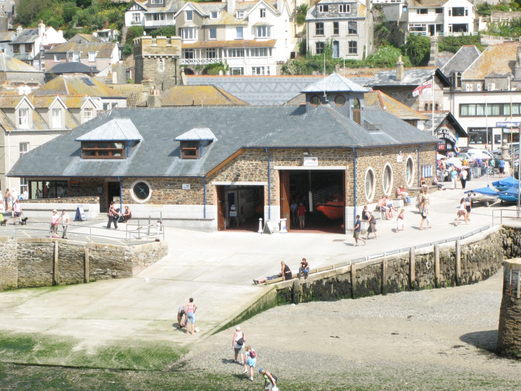 The lifeboat station at Looe, Cornwall, which launches its inshore rescue boats into the river. A previous station can also be seen immediately behind it on the right, whcih used to launch across the beach into the sea.